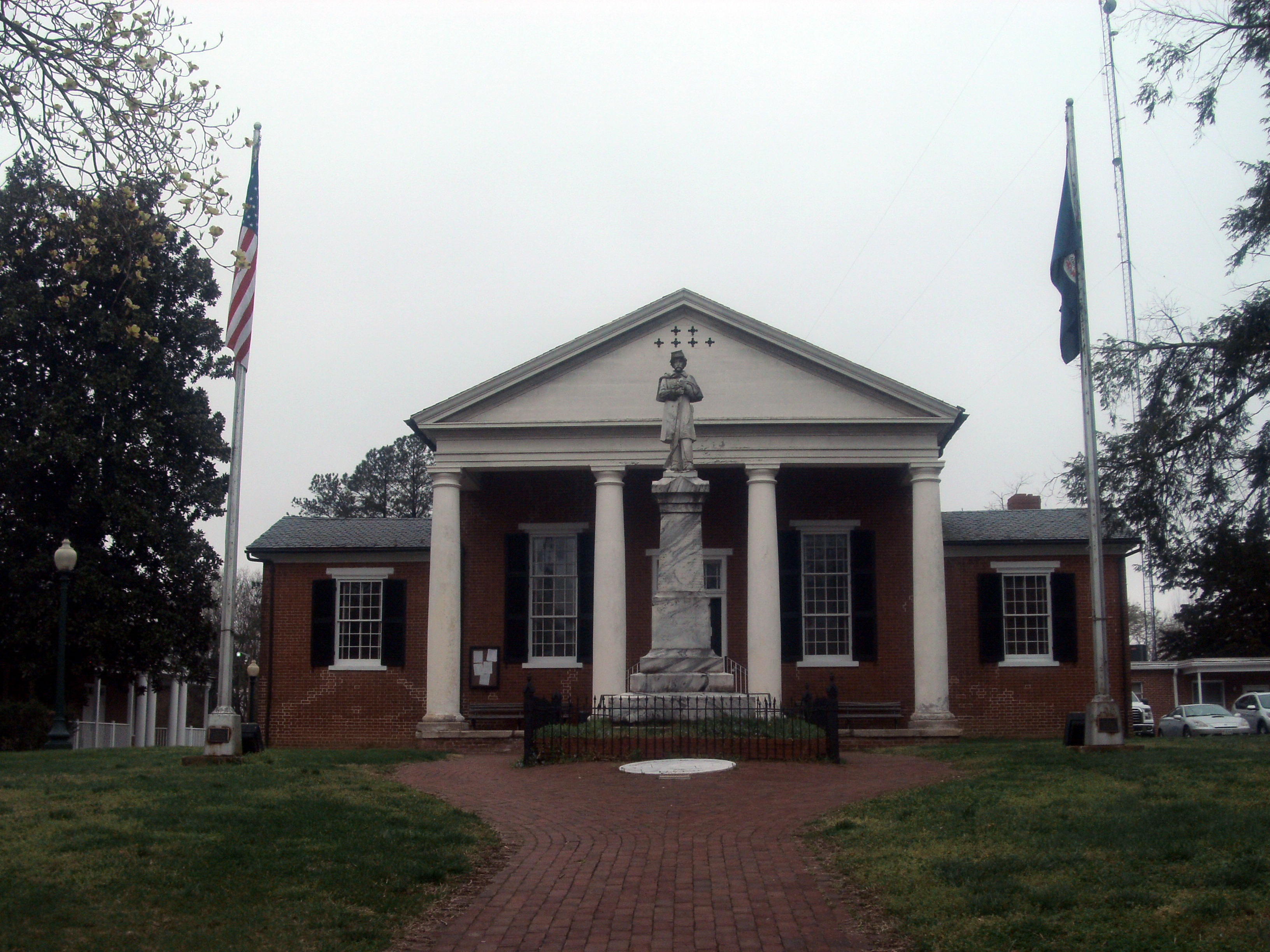 Nottoway County, Virginia, April, 2015 GEDSC DIGITAL CAMERA